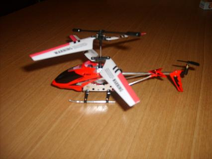 mini helicopter model syma S107